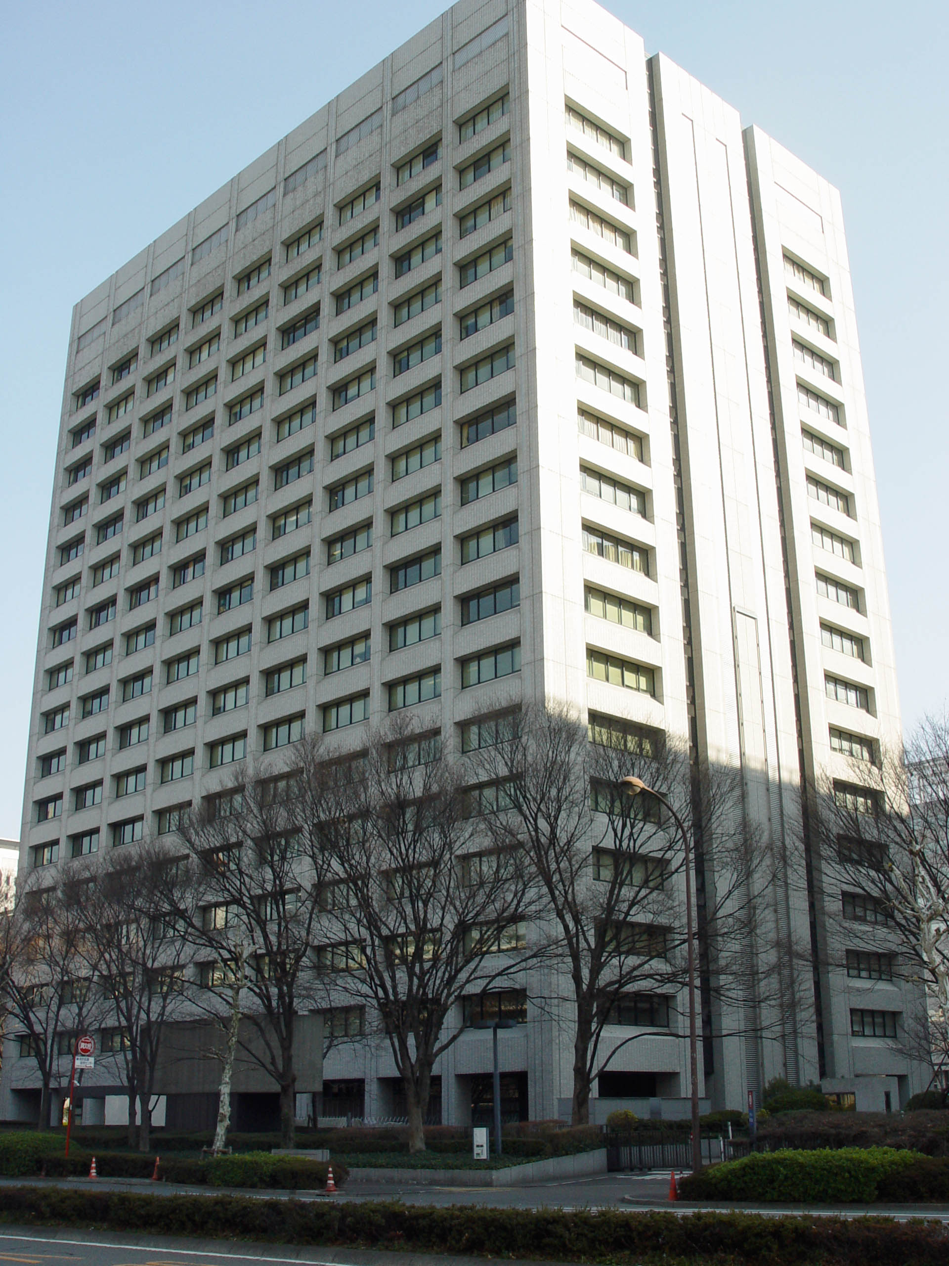 Public office building of Japan: The Ministry of International Trade and Industry 庁舎： 経済産業省